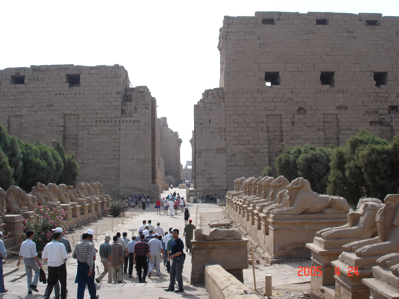 First pylon of the Karnak Temple